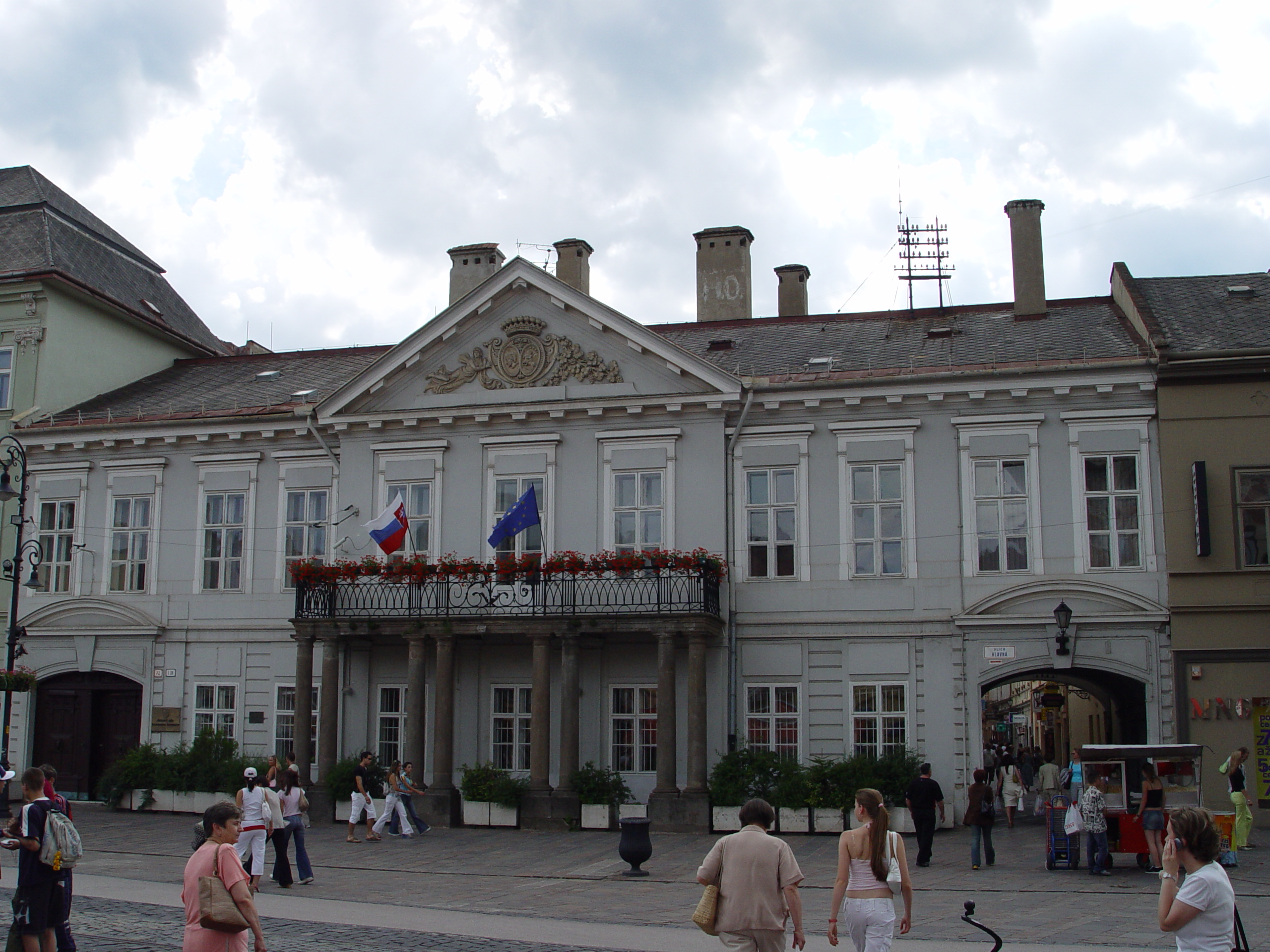 Slovakia, Košice, Csáky - Dessewffy Palace on Main Street